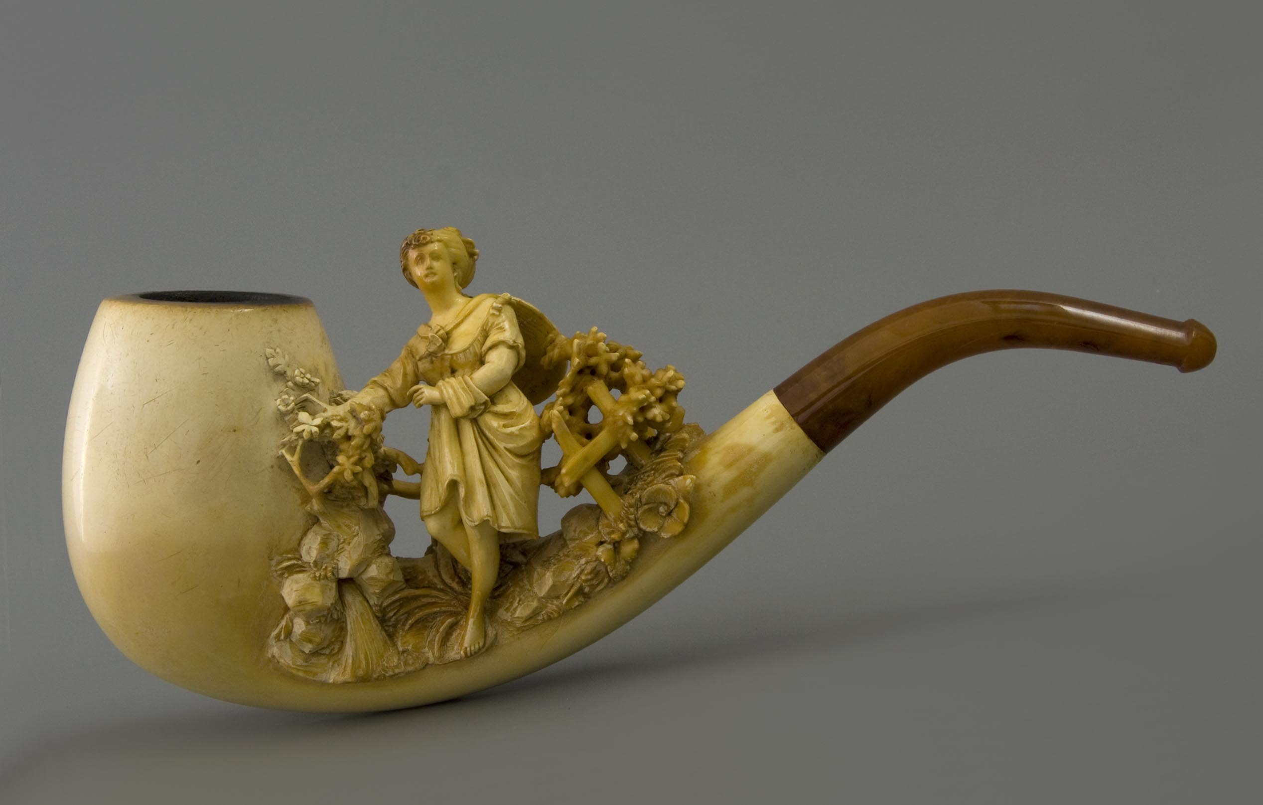 Carved meerschaum pipe, made in United States, 1890 (collection Pijpenkabinet, Amsterdam)